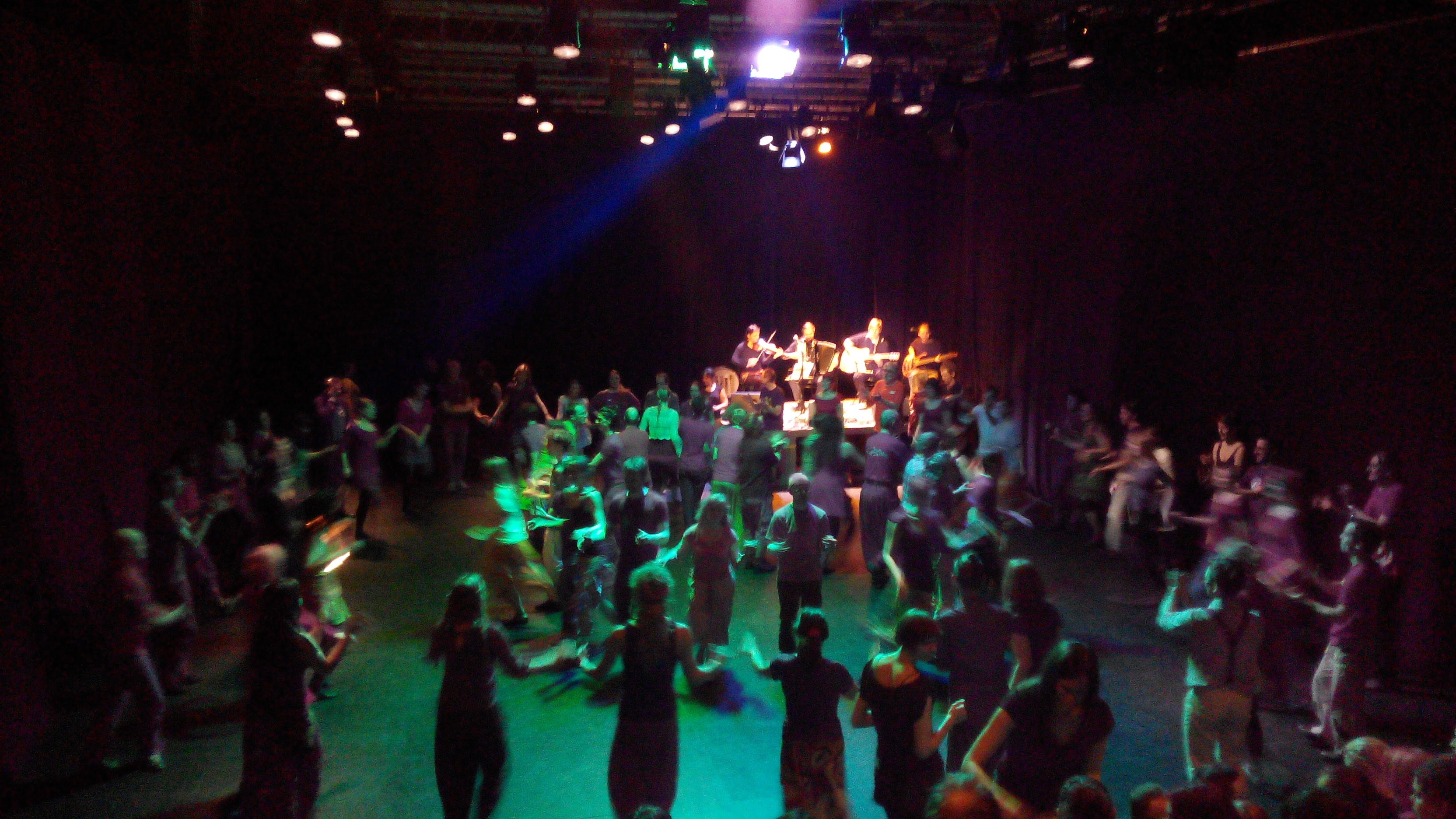 Balfolk dance cercle circassien on PBW 2016